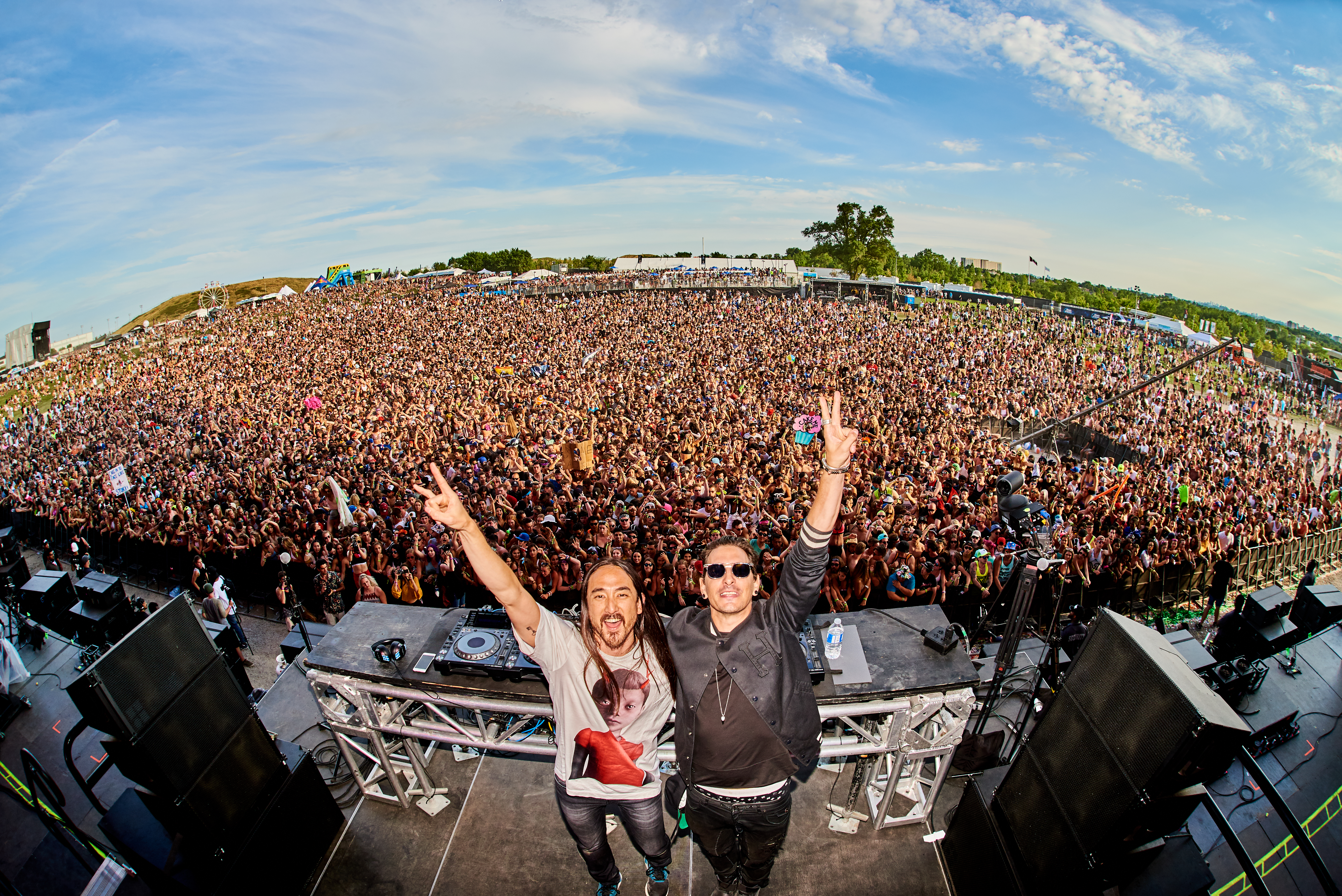 Steve Aoki B2B with Shaun Frank, performing in front of a packed crowd of Veld festival goers.